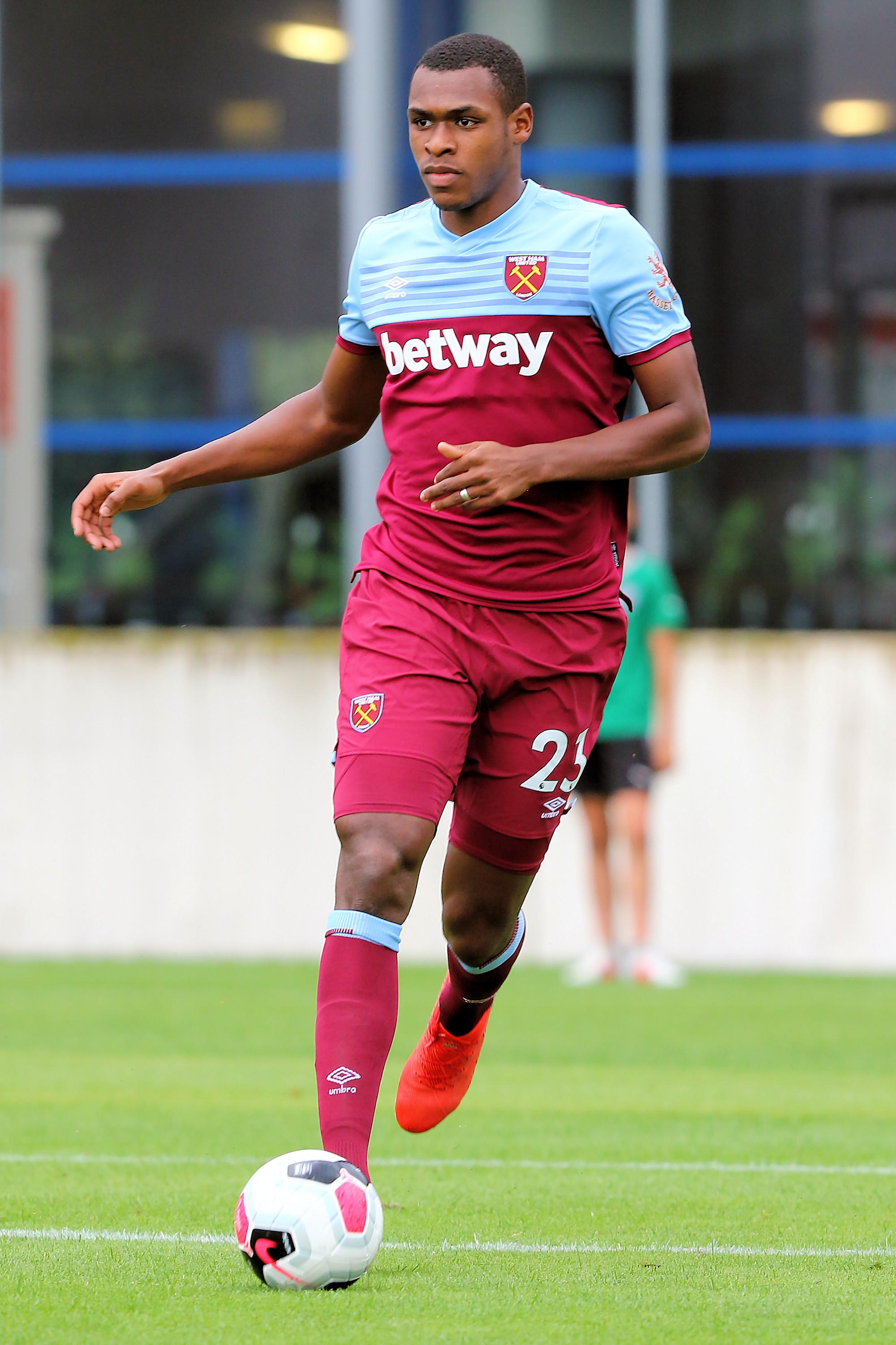 Friendly match Hertha BSC (blue-white shirts) vs. West Ham United (red-blue shirts) at 31-07-2019 3-5 (3-2) in the Sonnenseestadium in Ritzing. – The photo shows Issa Diop (West Ham United).